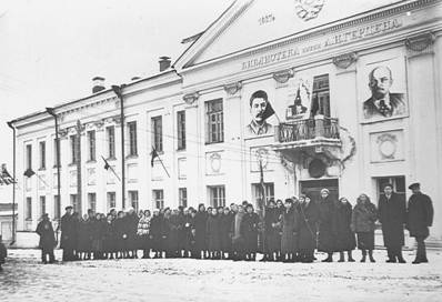 Meeting around the library named Herzen